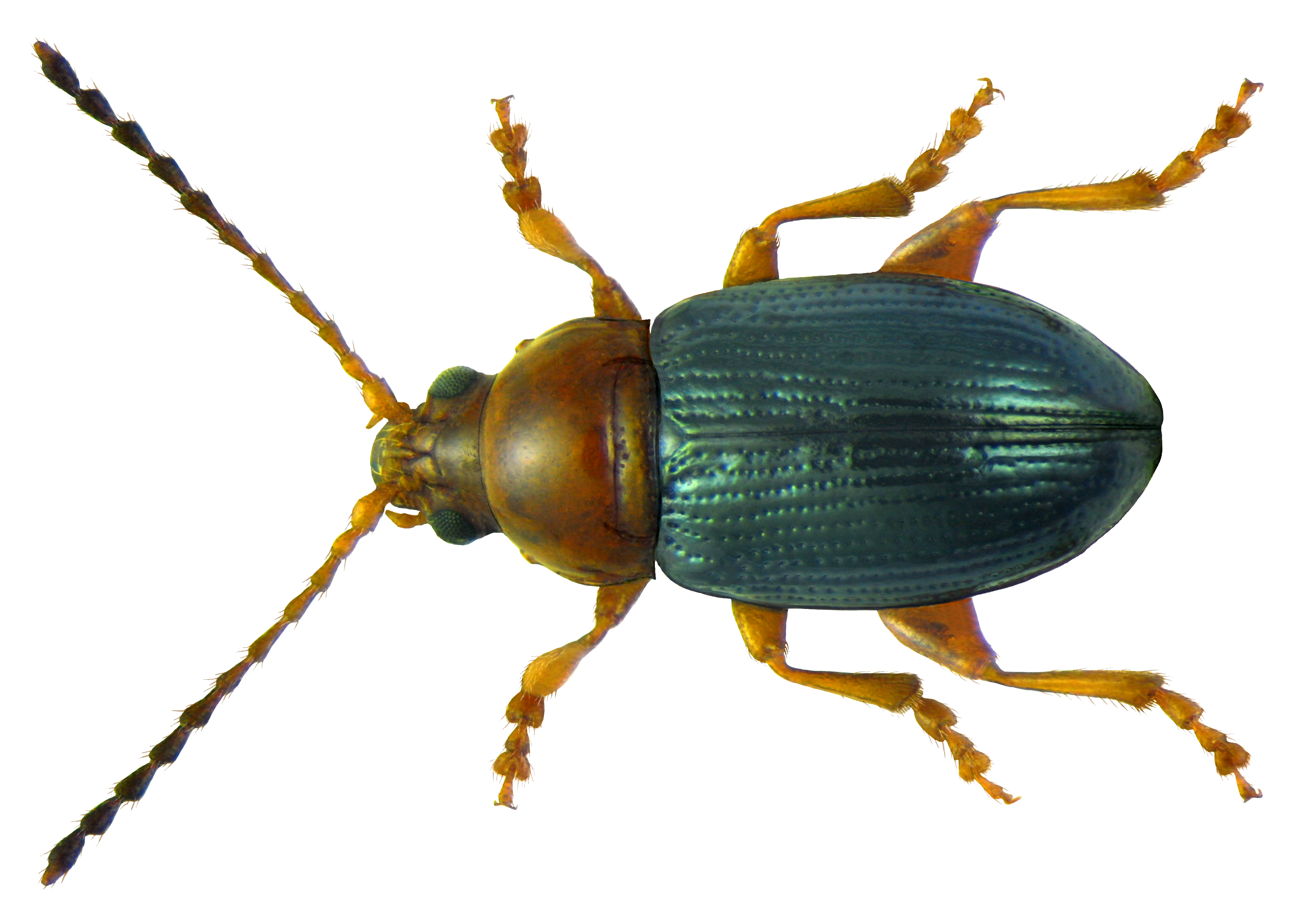 Family: Chrysomelidae Size: 2.8 to 3.8 mm Origin: Europe Ecology: on Papilionaceae Location: Germany, Bavaria, Upper Franconia, Kulmbach leg.det. U.Schmidt, 1972 Photo: U.Schmidt, 2011